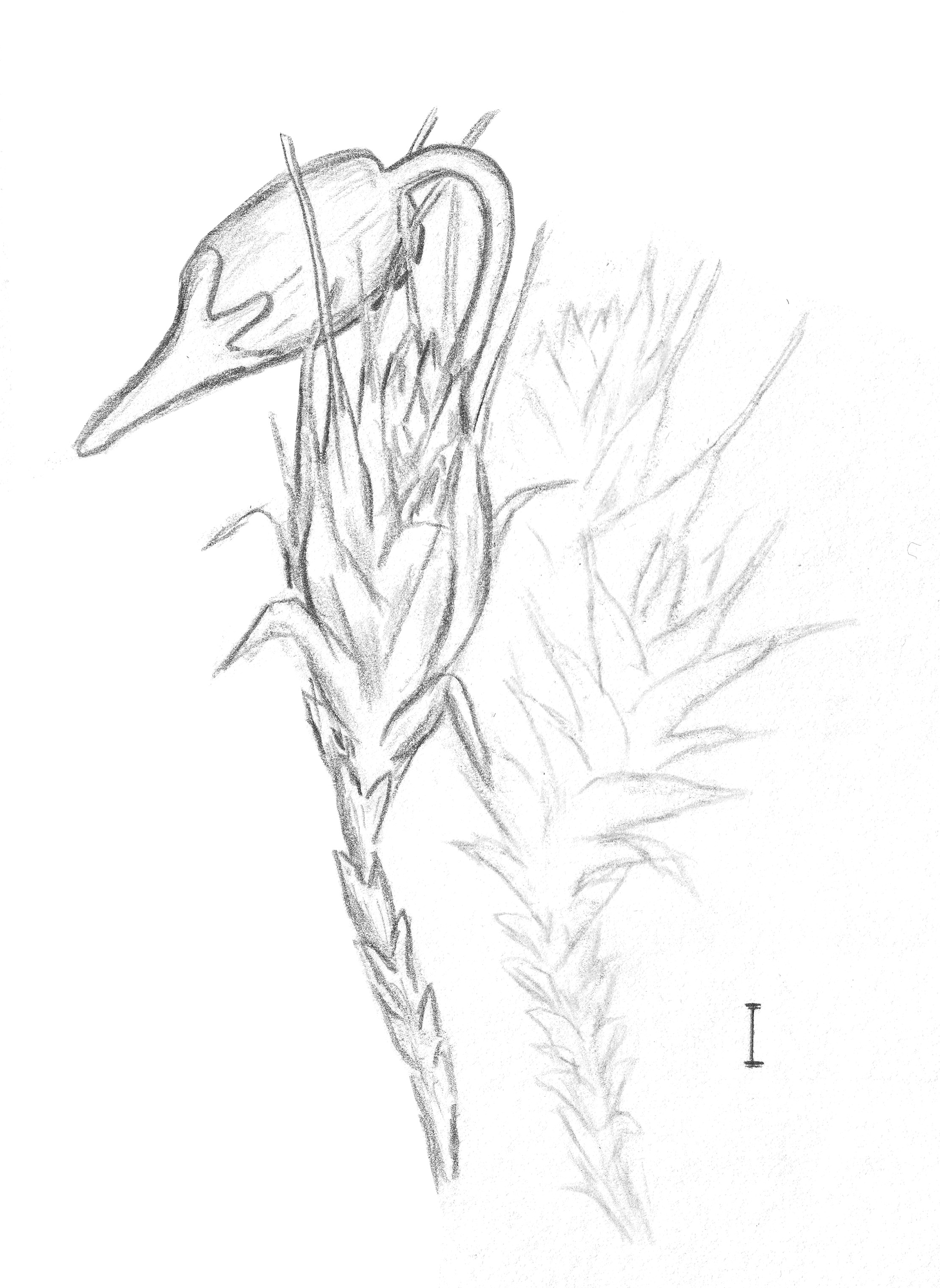 grey-cushioned grimmia (Grimmia pulvinata), dry and wet plant (drawing)